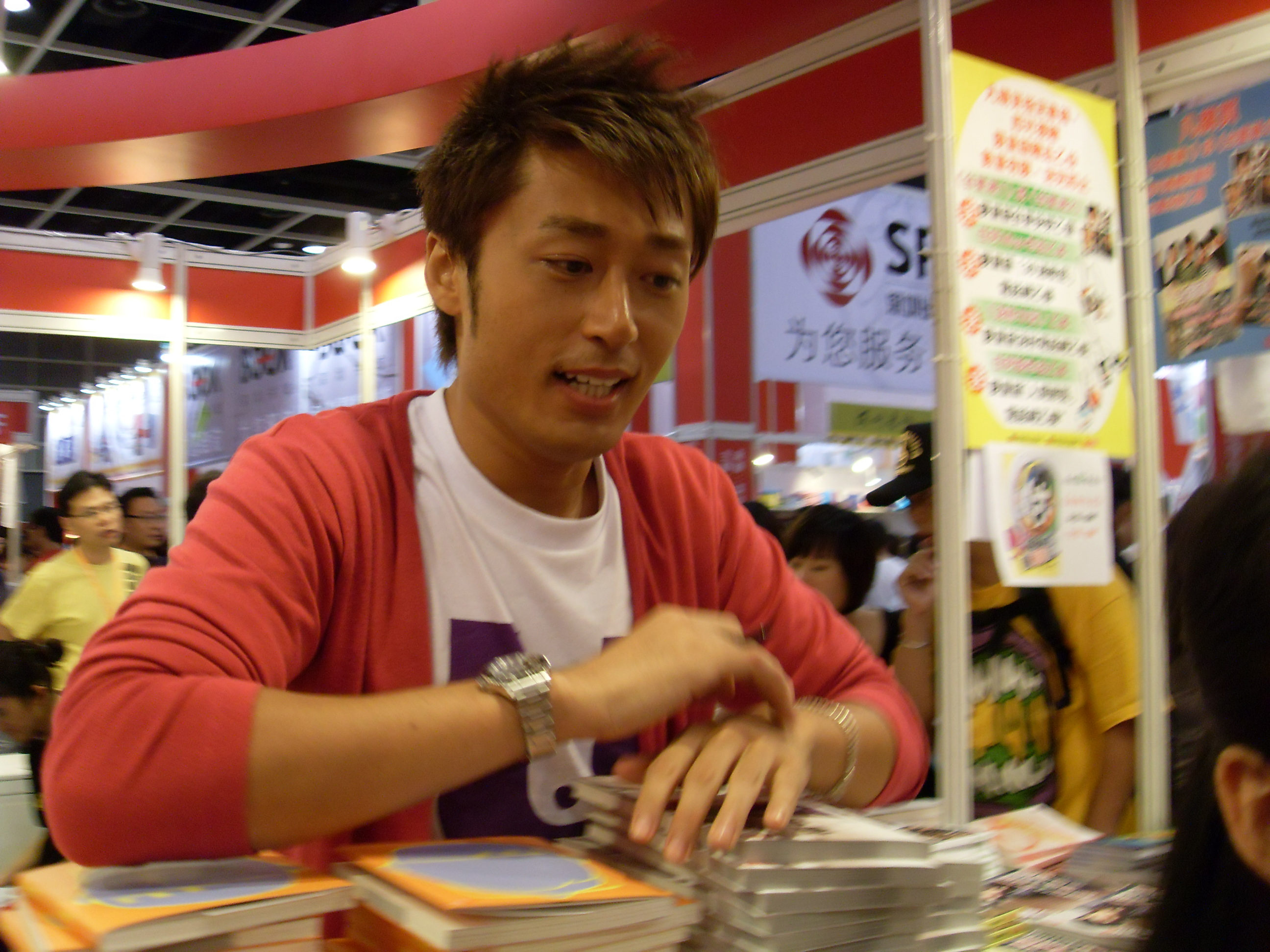 Ong Yi Hing, Ming Pao Enterprise booth, Hong Kong Book Fair 2008.